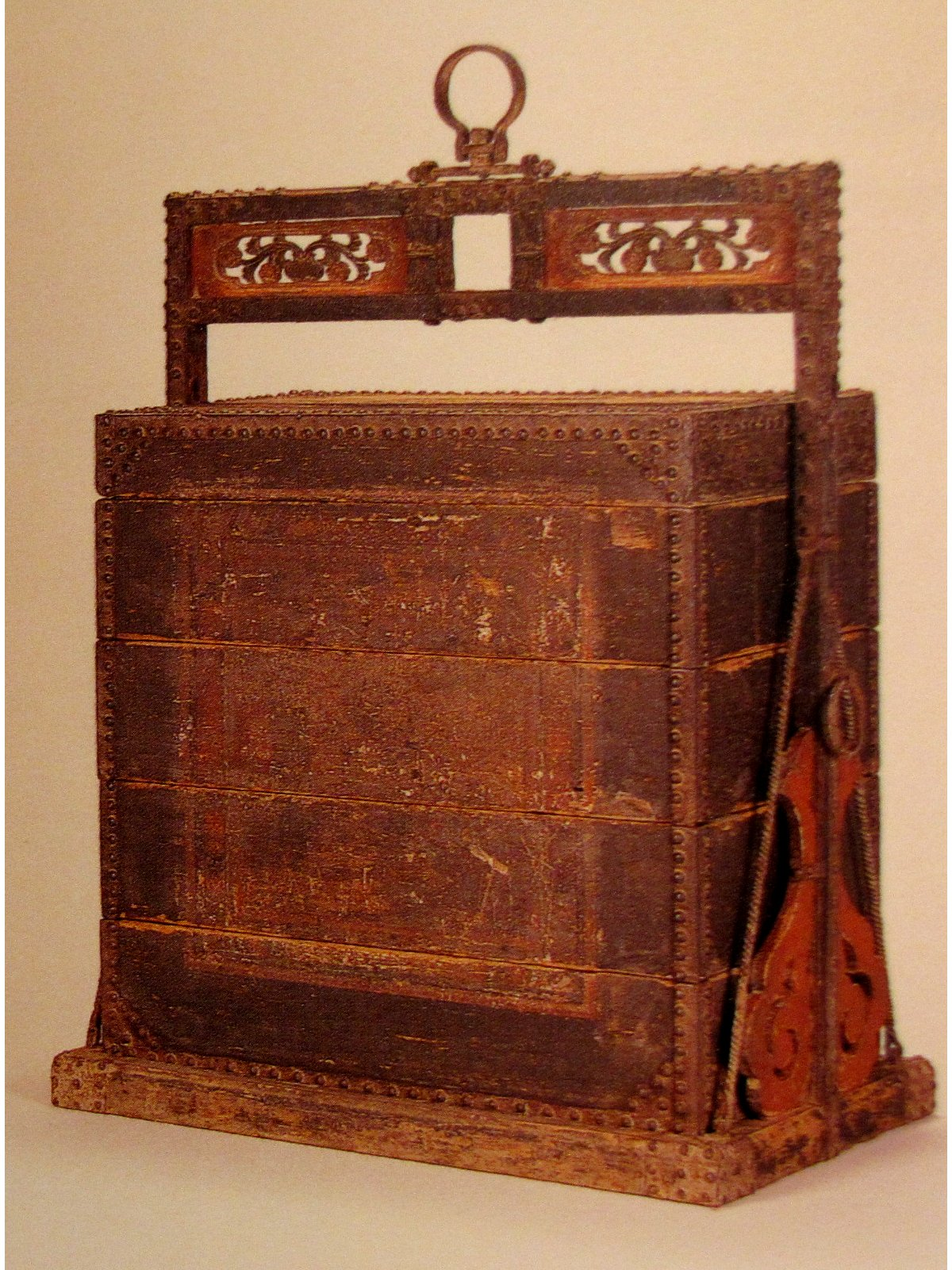 China Qing dynasty 1740 large foodbox 106 x 85 x 53 cm to be carried by two men using a pole. C.L. Ma traditional chinese furniture collection.